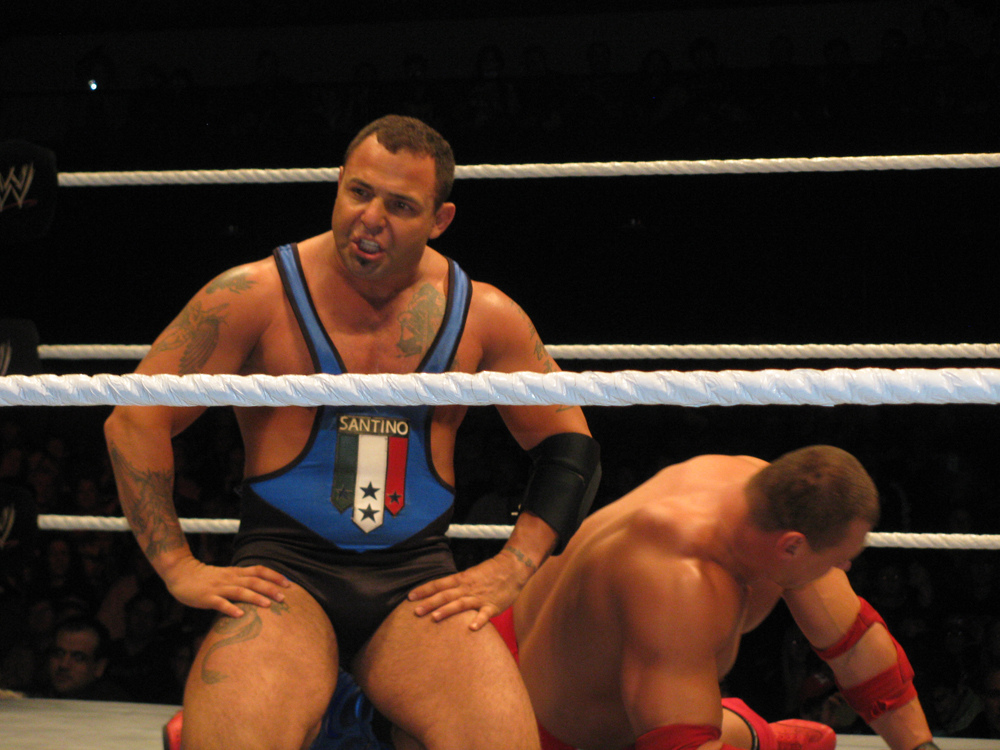 Santino Marella & Vladimir Koslov @ Adelaide, South Australia 'RAW' house show on the 4th of July '11